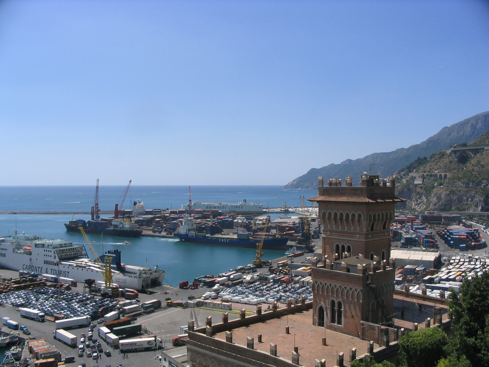 The Port Of Salerno ( August 2005 )